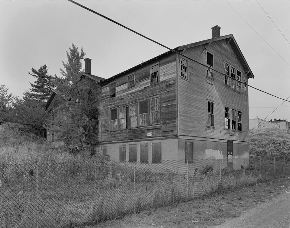 Nihon Go Gakko, the Japanese Language School in Tacoma, Washington before it was demolished in 2004.